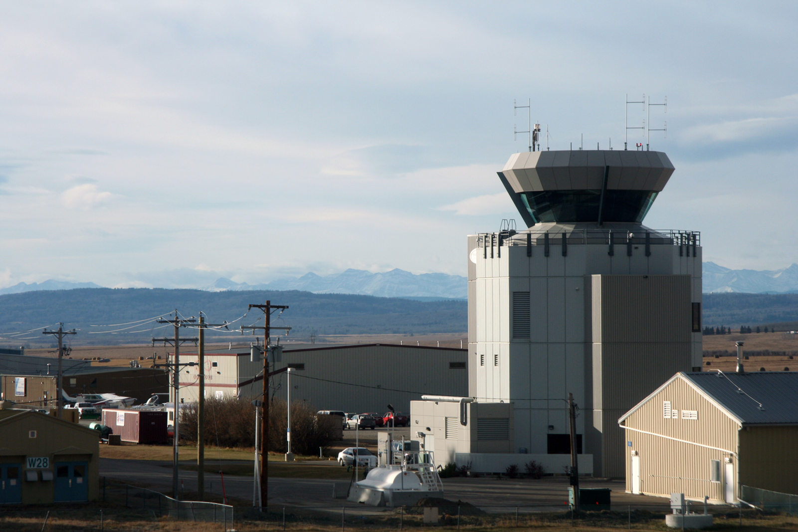 Control tower at Calgary Springbank Airport, with the Calgary Flying Club and Mount Royal University hangar in the background, and various airport administration buildings in the foreground. Taken from the back passenger seat of C-FWPV.